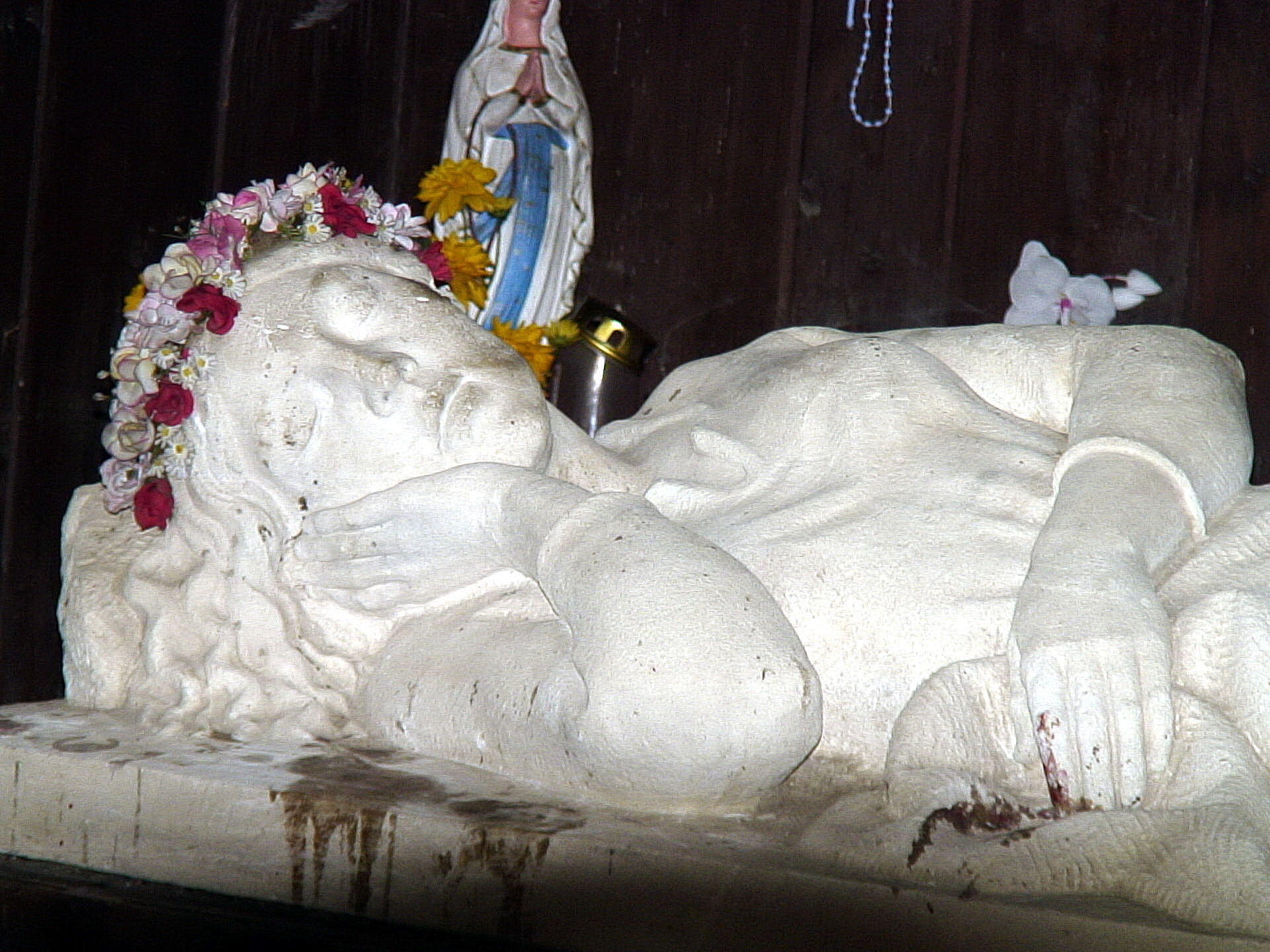 Saint Rosalia at the Rosalia grotto on mount Hemma in the community Globasnitz, district Völkermarkt, Carinthia, Austria